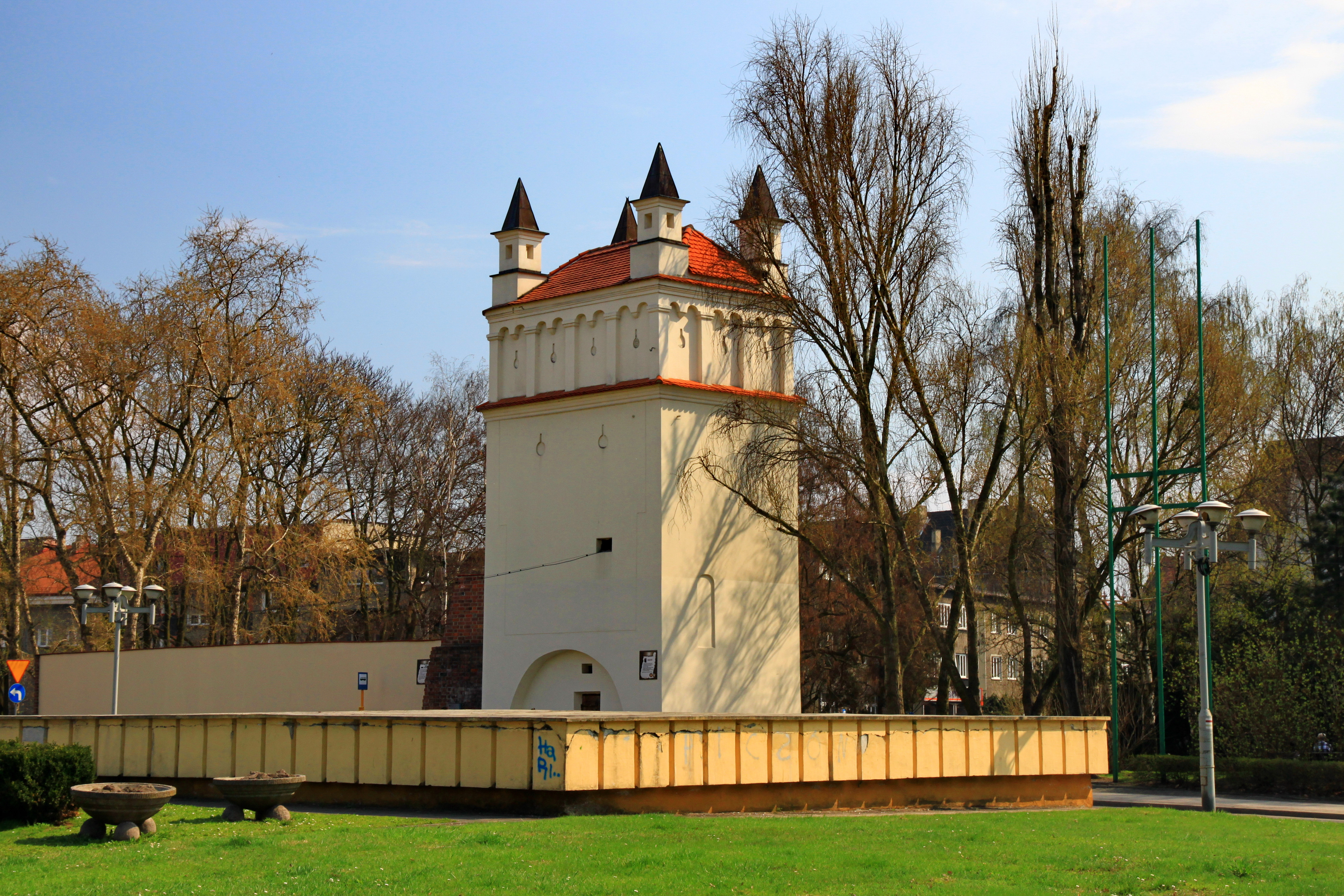 Racibórz, prison tower, build in 1574